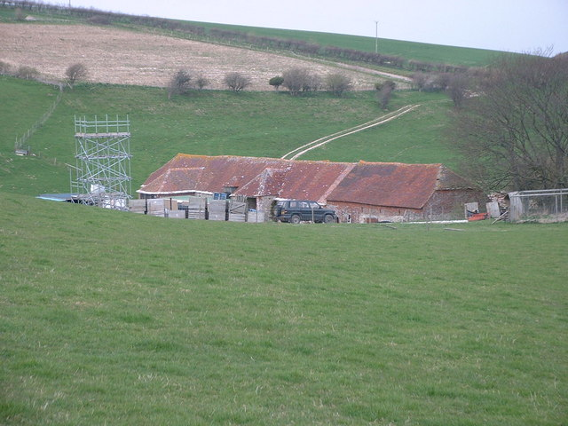 Belhuish Farm No longer used as a farm, these building are used as a timber yard for the Lulworth Estate. They are a fantastic collection of flint wall and clay roof tile farm buildings